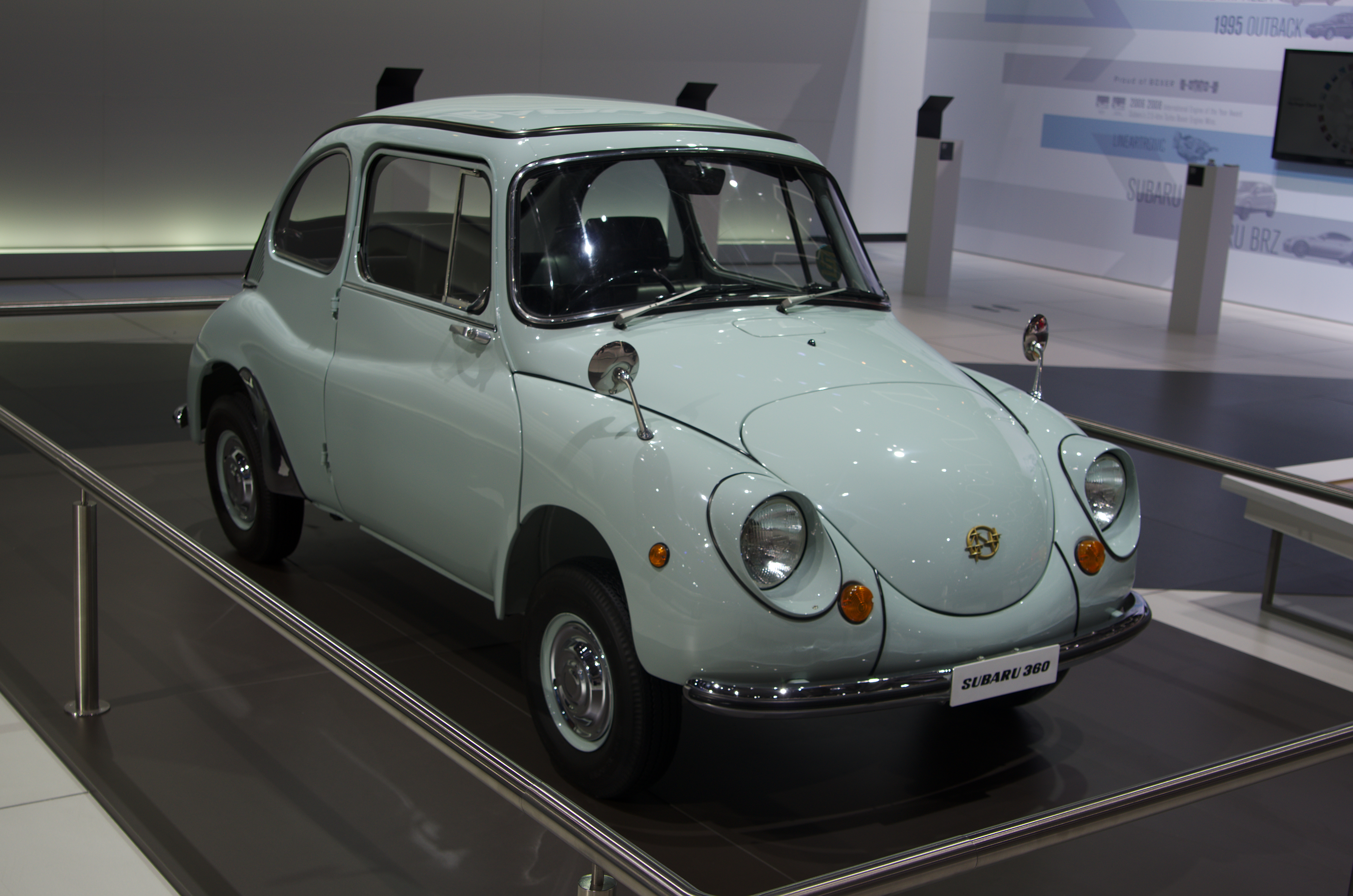 Geneva MotorShow 2013 - Subaru 360